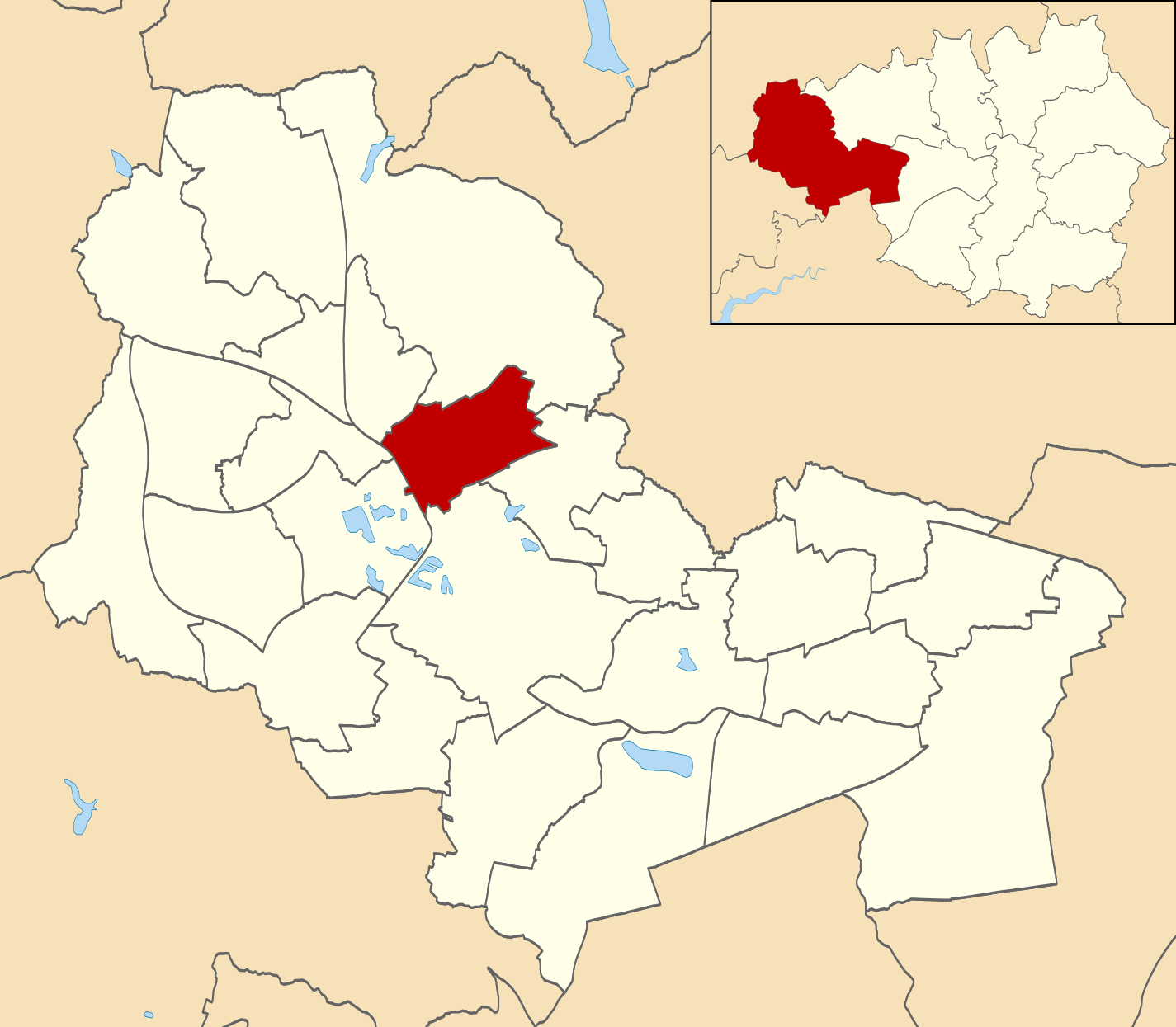 Map showing the location of Ince ward within Wigan Metropolitan Borough Council